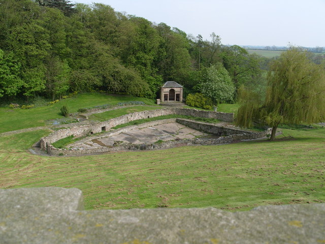 Stanford Hall Stanford Hall Grounds from hall